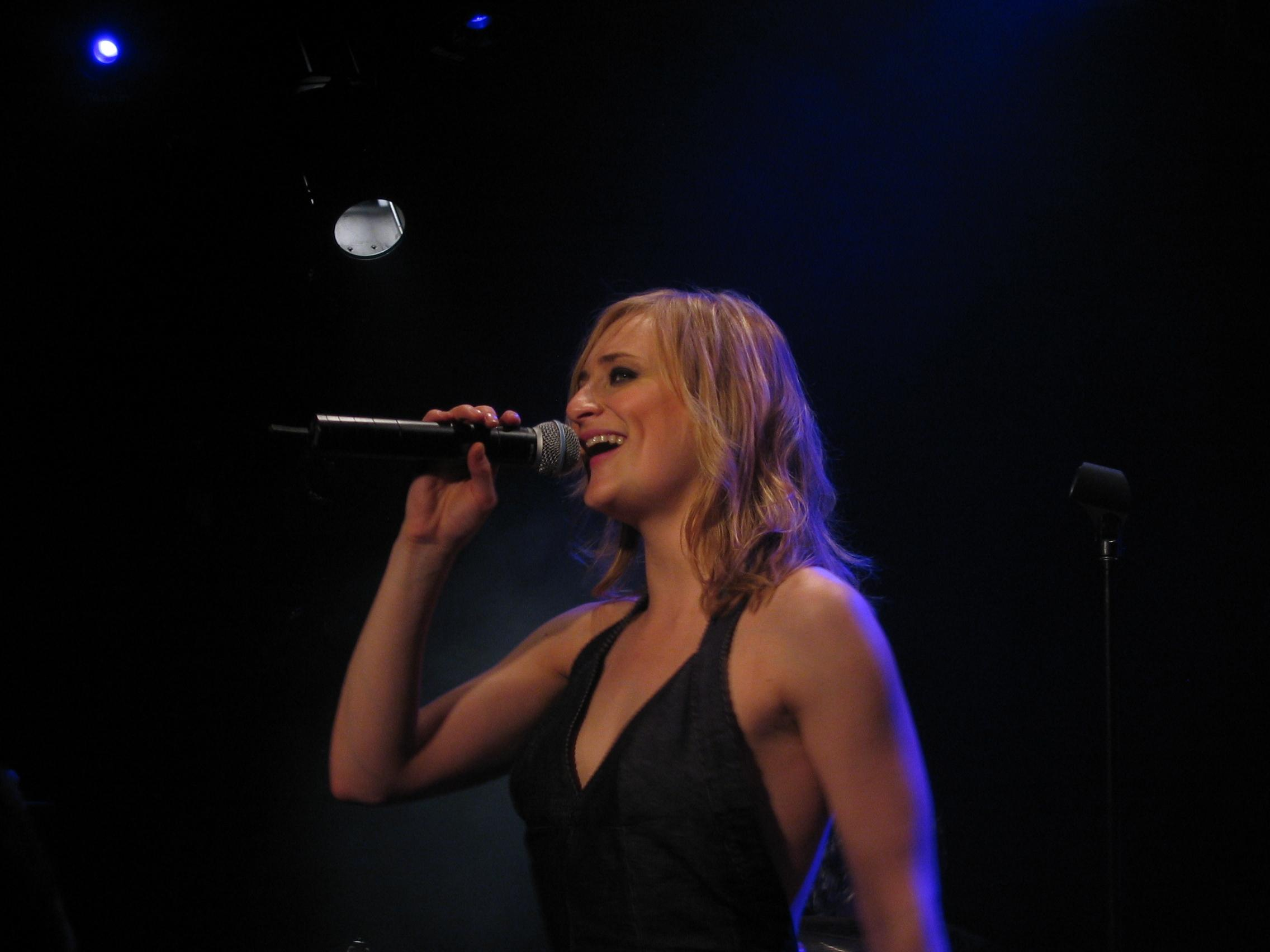 Geike Arnaert (Hooverphonic) perfoming at La Maroquinerie (Paris). June 5, 2008.